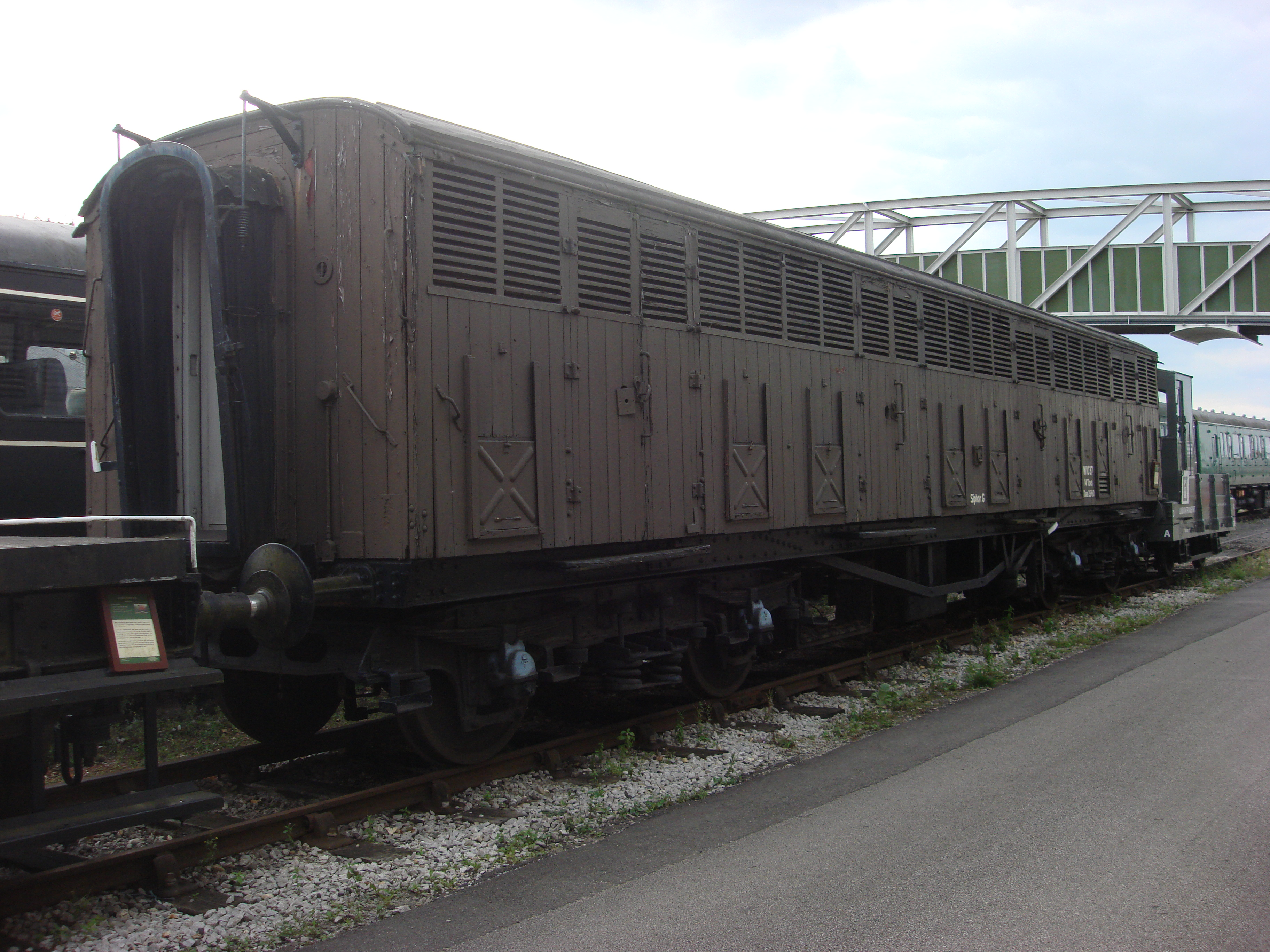 BR 'Siphon G' No. W1037, built in 1955 to a GWR design